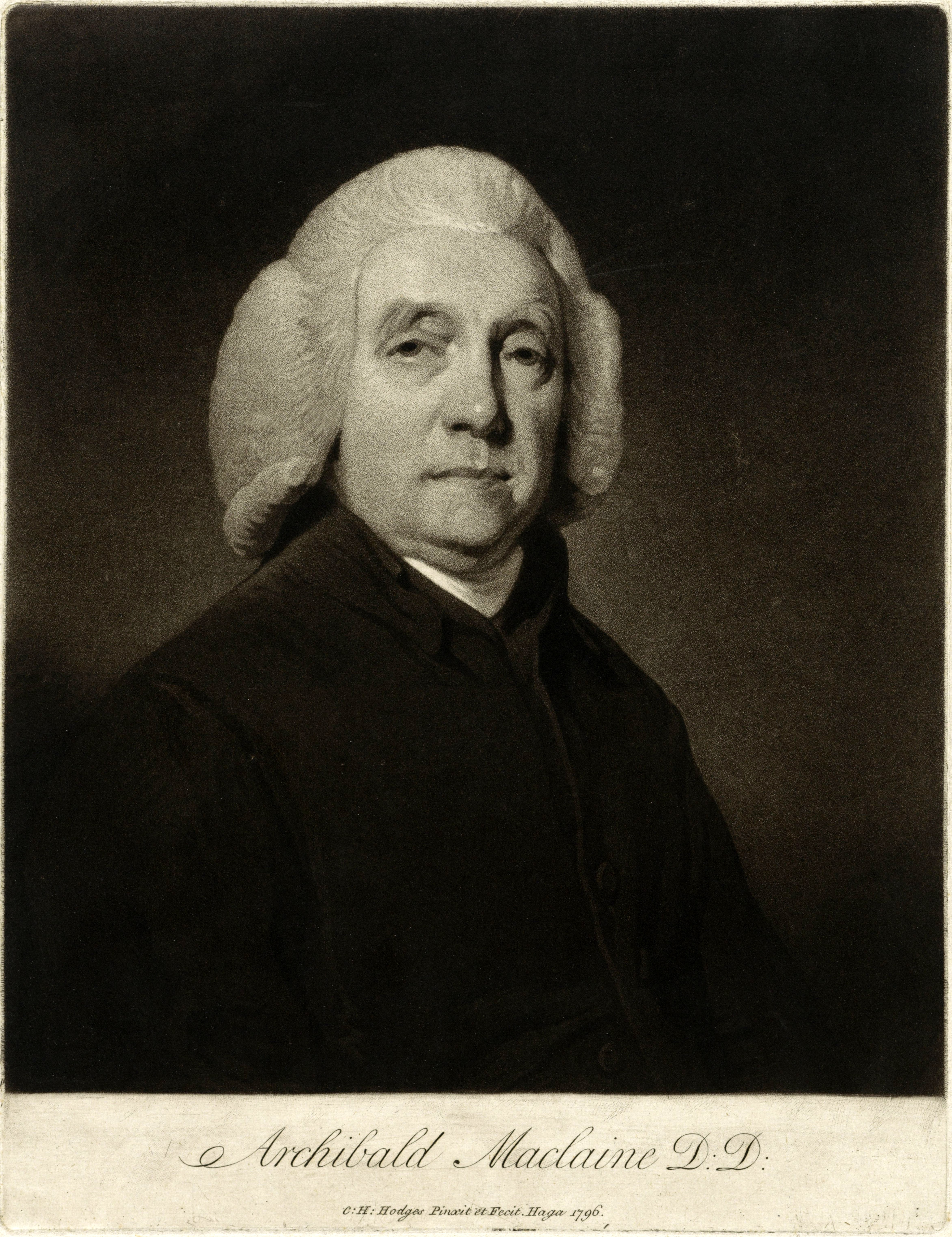 Archibald Maclaine (1722-1804) was from Monaghan in Ireland. He studied at the University of Glasgow, where in 1746 he obtained his Masters (Artium Liberalium Magister) and in 1767 his doctorate. Maclaine worked in The Hague in The Netherlands from 1747 until around 1795 as a pastor of the Anglican Church. In 1788 King George III granted Maclaine the title of court preacher. Maclaine gave English language lessons to Prince William-Frederick of Orange-Nassau (1772-1843) and his mother Princess Wilhelmina of Prussia (1751-1820).